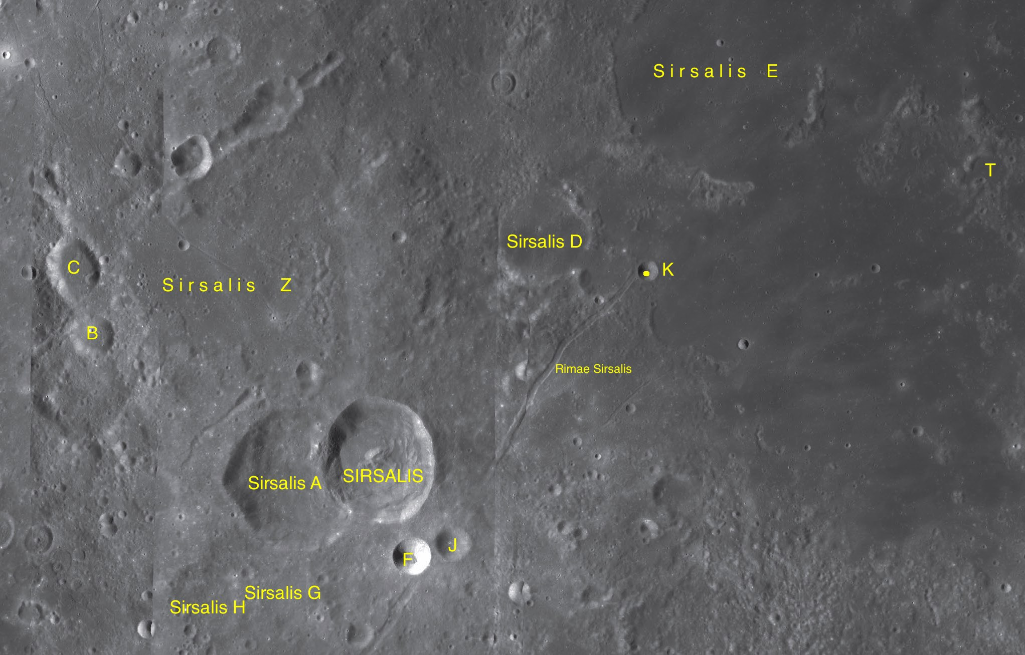 Part of the chart LAC-74 used for the presentation